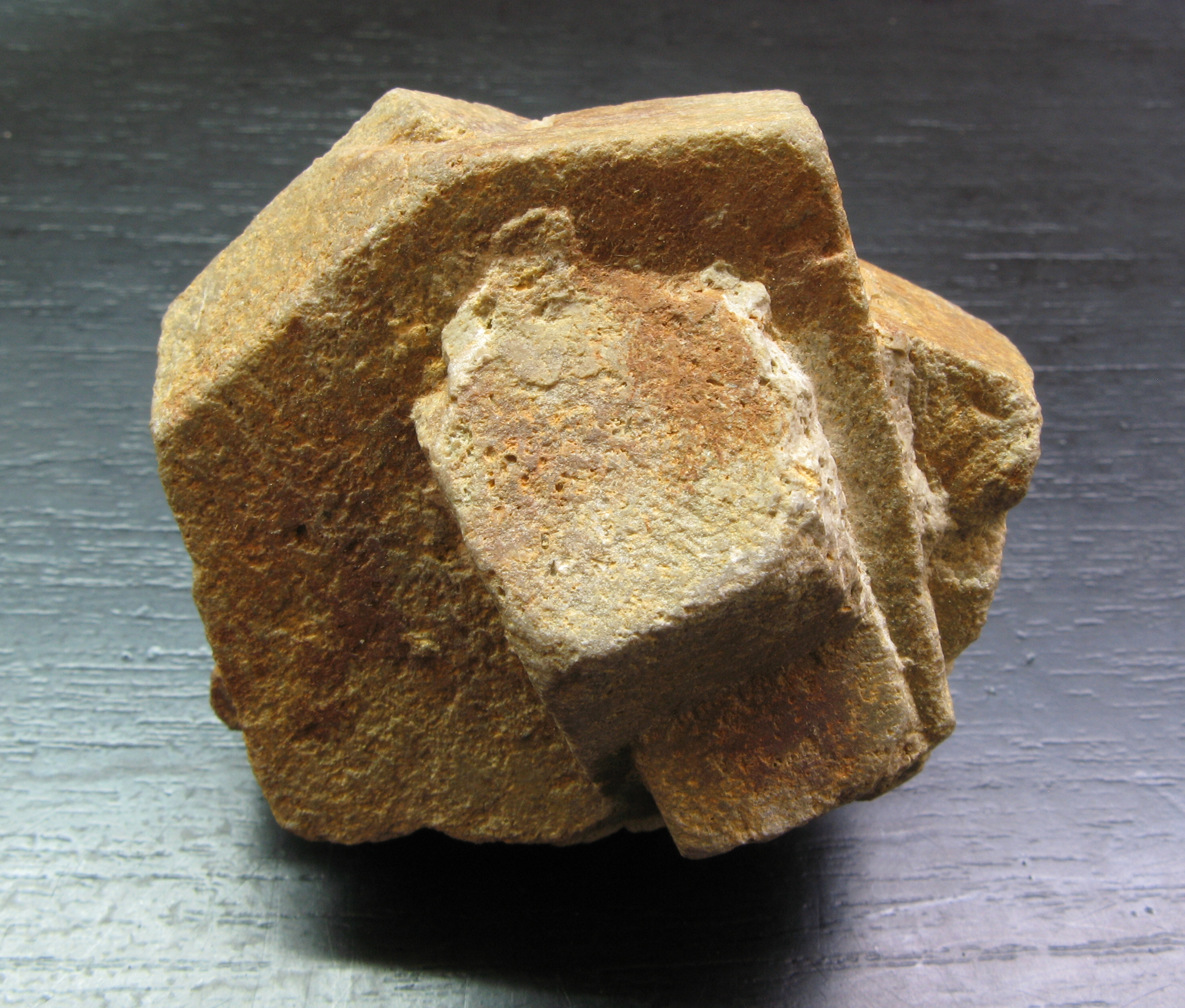 Nacrite after Feldspar (pseudomorph) Locality: Saubachtal, Vogtland Exposed in the Mineralogical Museum of University Bonn, Germany